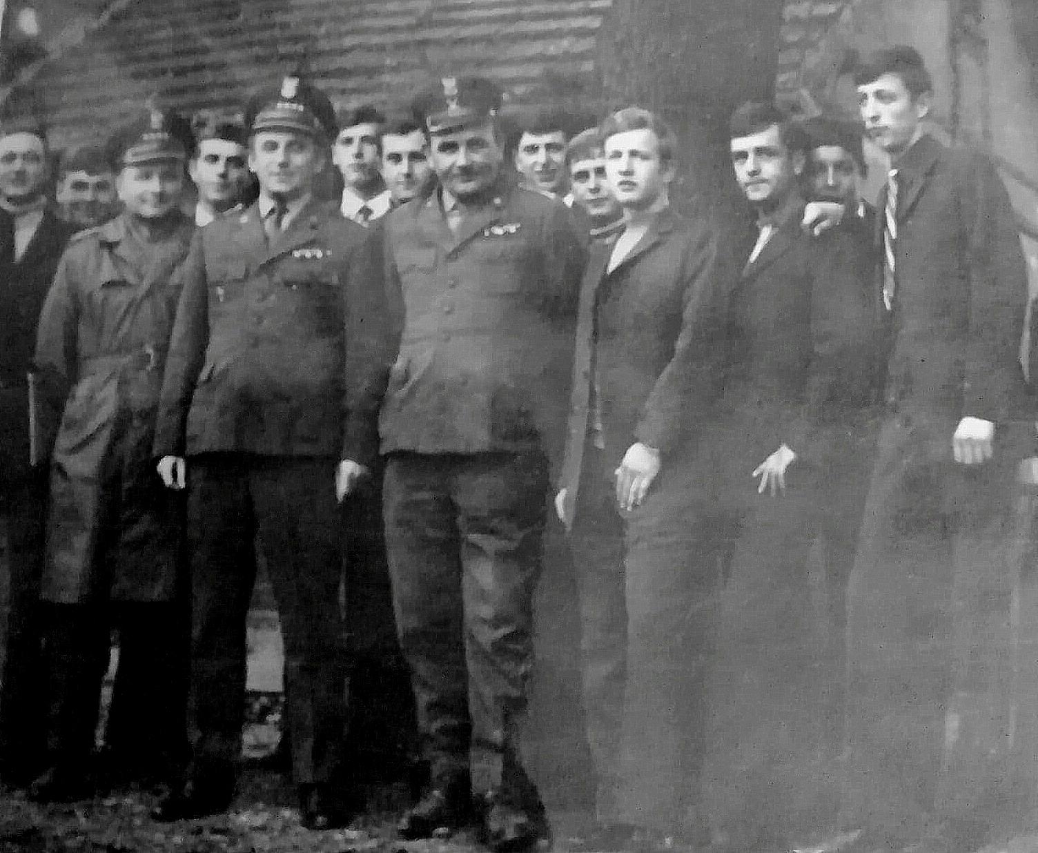 Border Protection Forces in Krzanowice